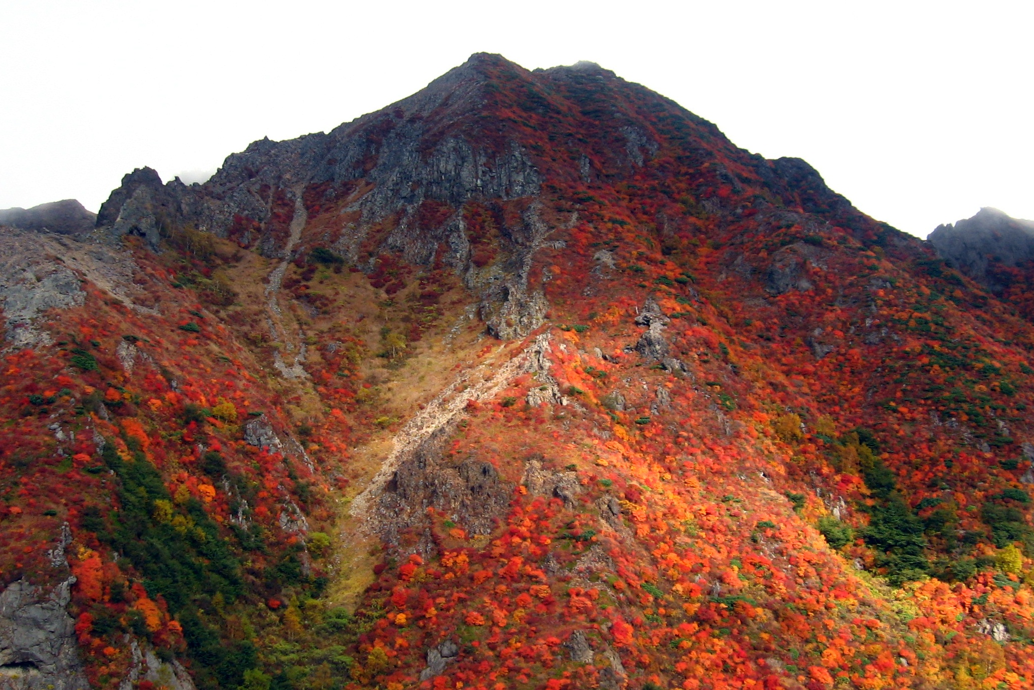 Mount Asahidake in Nasu volcano